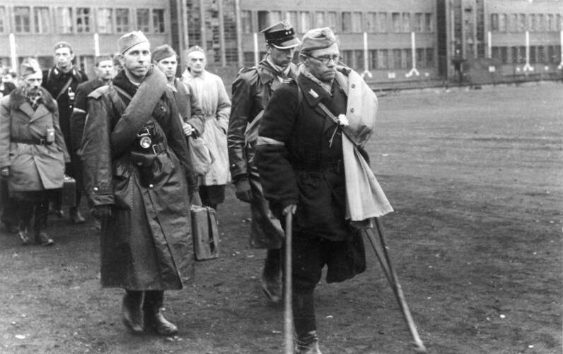 Warsaw Uprising: Polish units preparing to leave Warsaw after the surrender of the Uprising. Meeting area at the block of Sucha Street (today's Krzywickiego St.), Koszykowa St., aleje Niepodległości, August 6 St. (today's Nowowiejska St.). During formation of the marching column this area was bombed by Russian artillery. Building in the back is at al. Niepodległości 243 - until recent headquarters of Polish Intelligence.